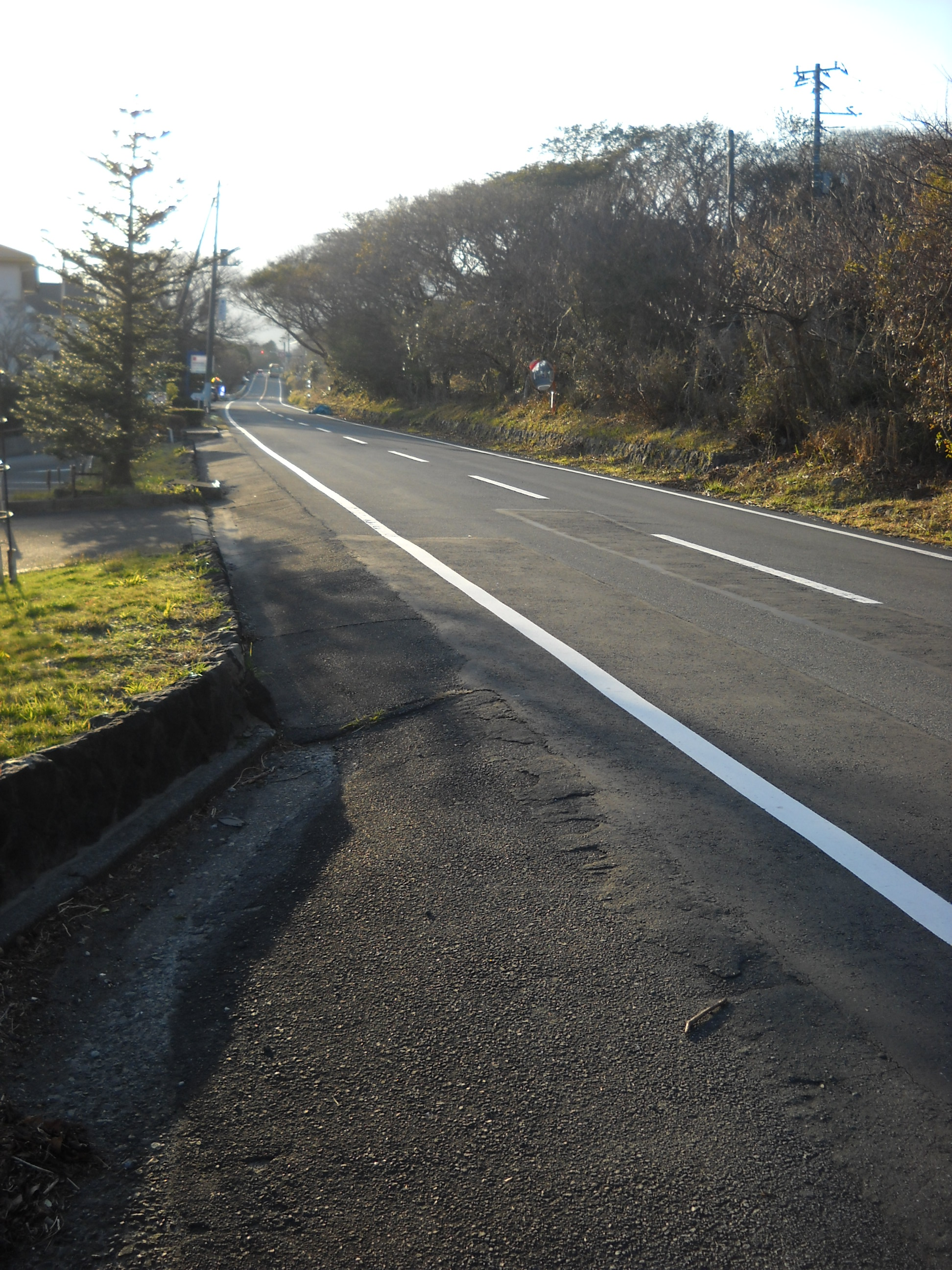 Shizuoka prefectural road route 111, Izu city, Shizuoka pref., Japan